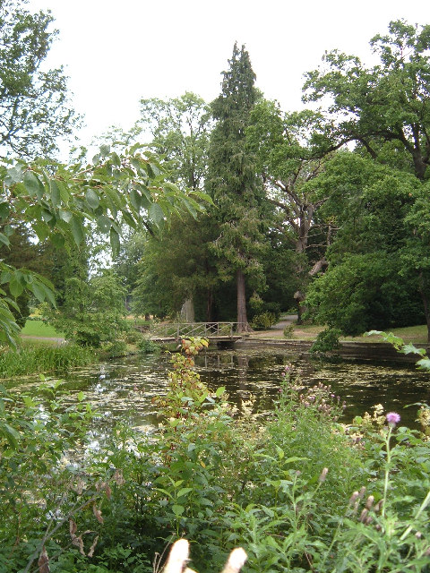 Thorp Perrow Arboretum. Also a falconry centre, fantastic day out for the kids (and adults)